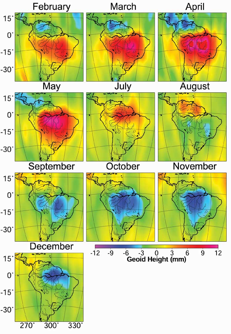 Changes in the geoid height as a result of increases and decreases in the mass of the Amazon River basin as controlled by the hydrologic cycle.